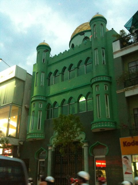 Jamiul Muslimin Mosque, Phu Nhuan District, Ho Chi Minh City, Vietnam.